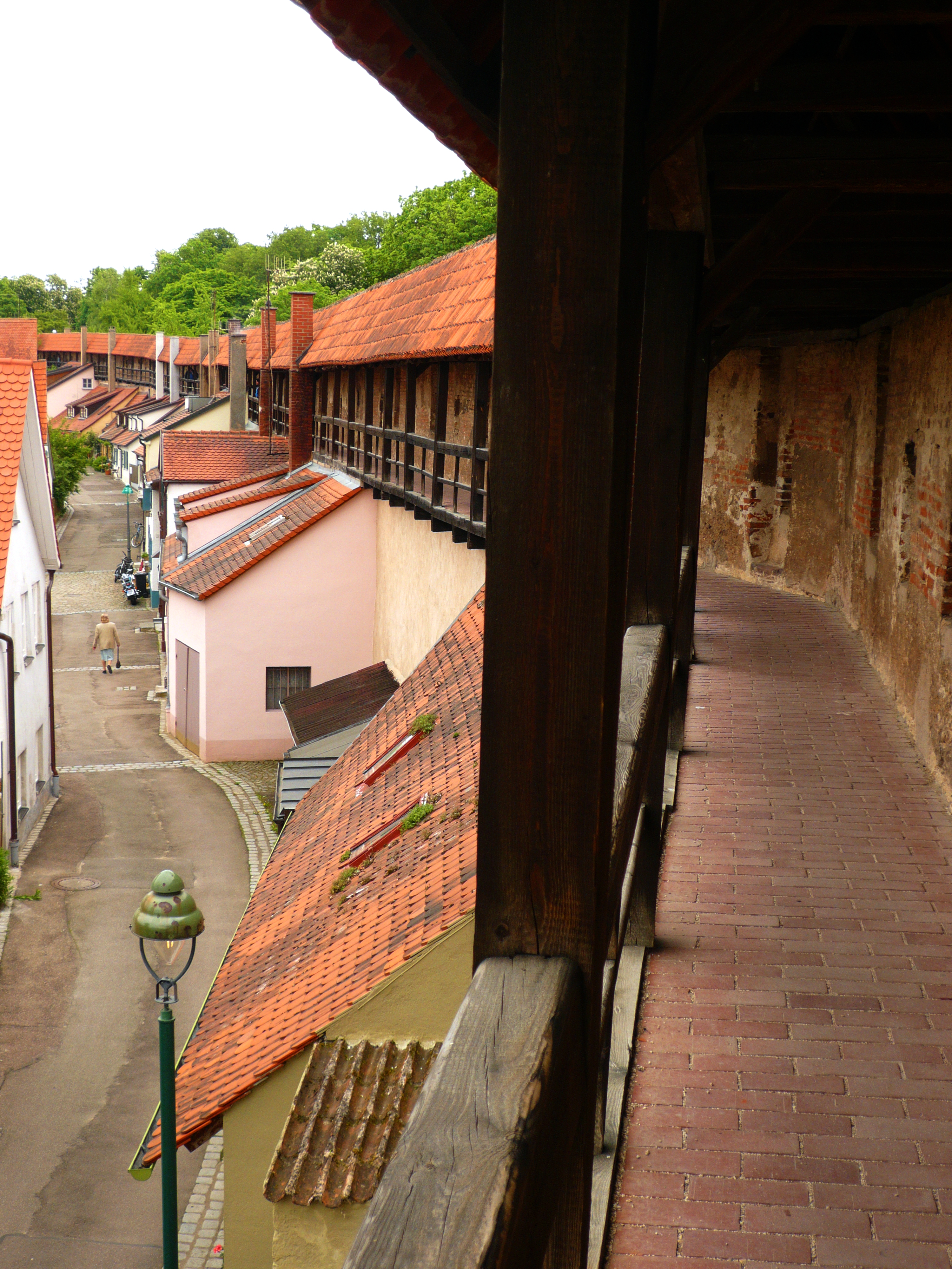 On the town wall of Noerdlingen, Bavaria